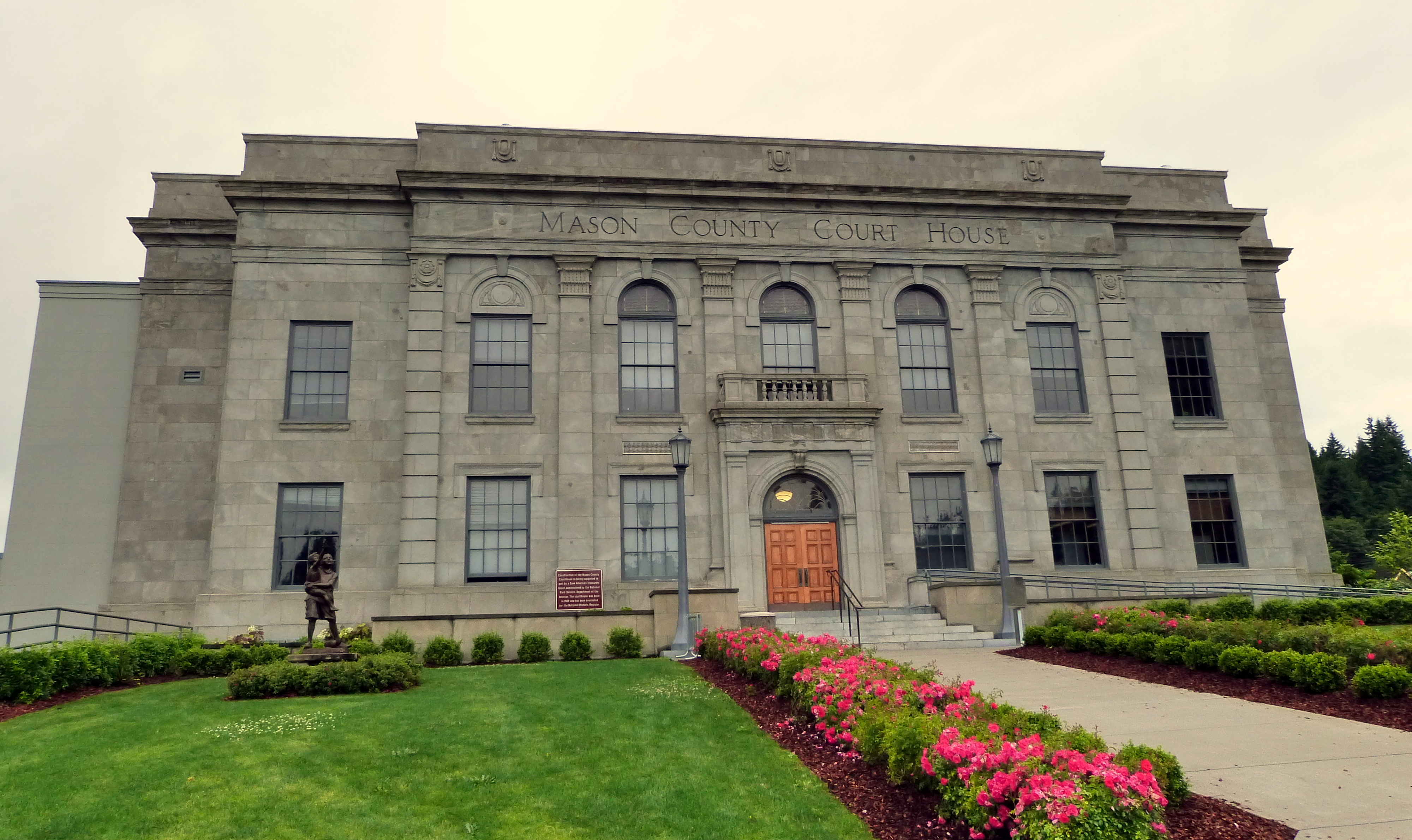 The historic Mason County Courthouse, located at 419 North 4th Street in Shelton, Washington, United States, is listed on the US National Register of Historic Places.